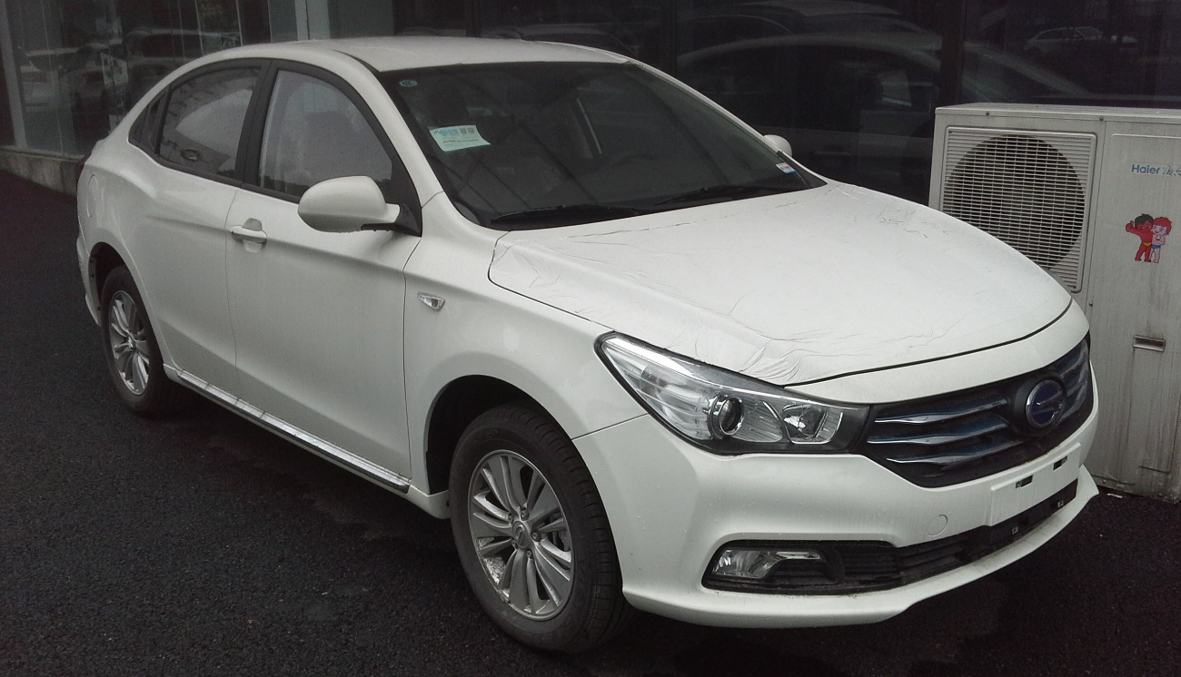 GAC Trumpchi GA3S PHEV photographed in Shanghai, China.